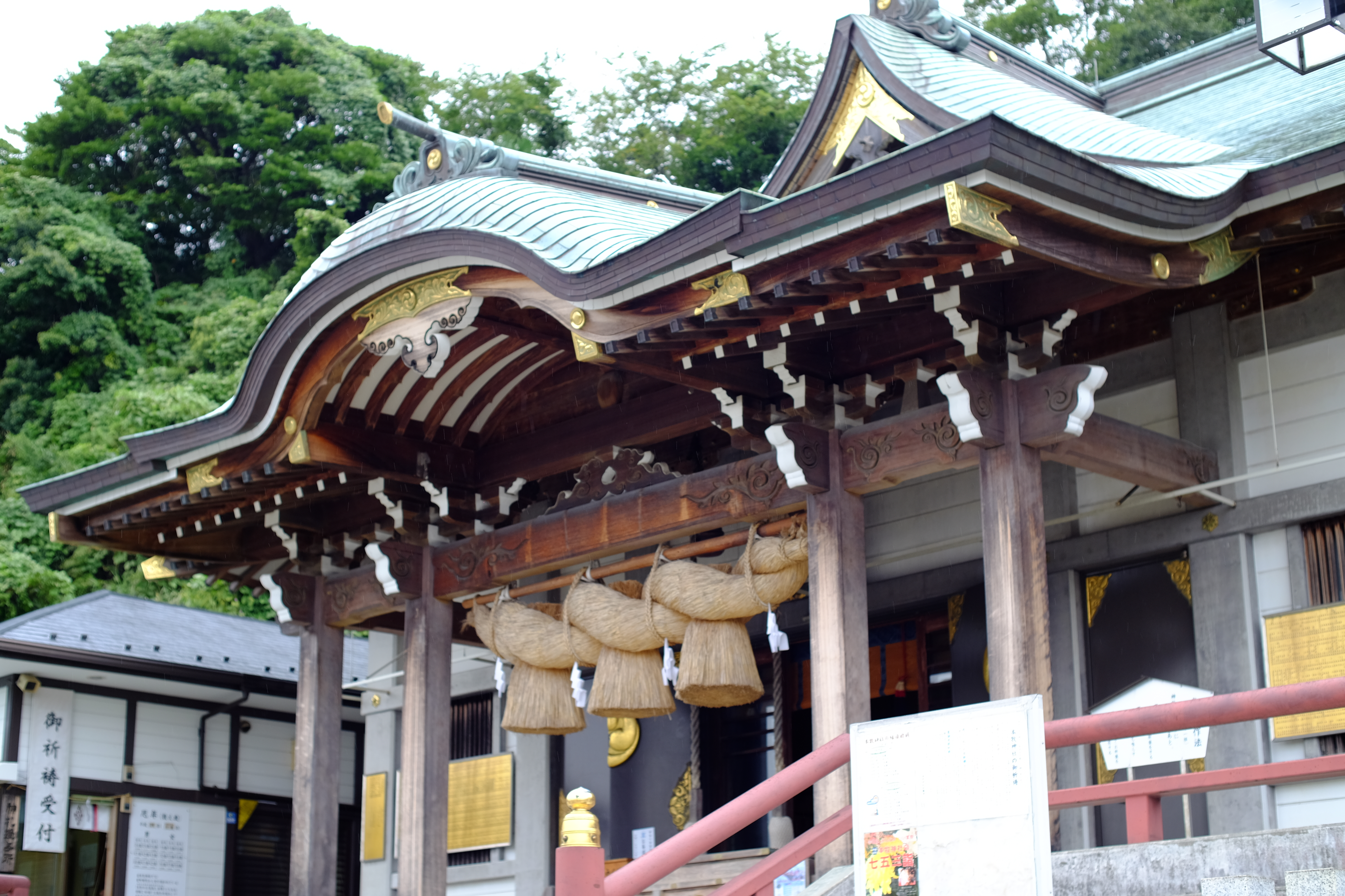 Hommoku-Jinja Shrine, Naka-ward, Yokohama-city, Kanagawa pref. Japan.